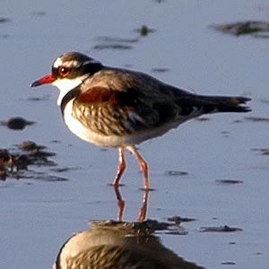 Bird, Black-fronted Dotterel, Elseyornis melanops